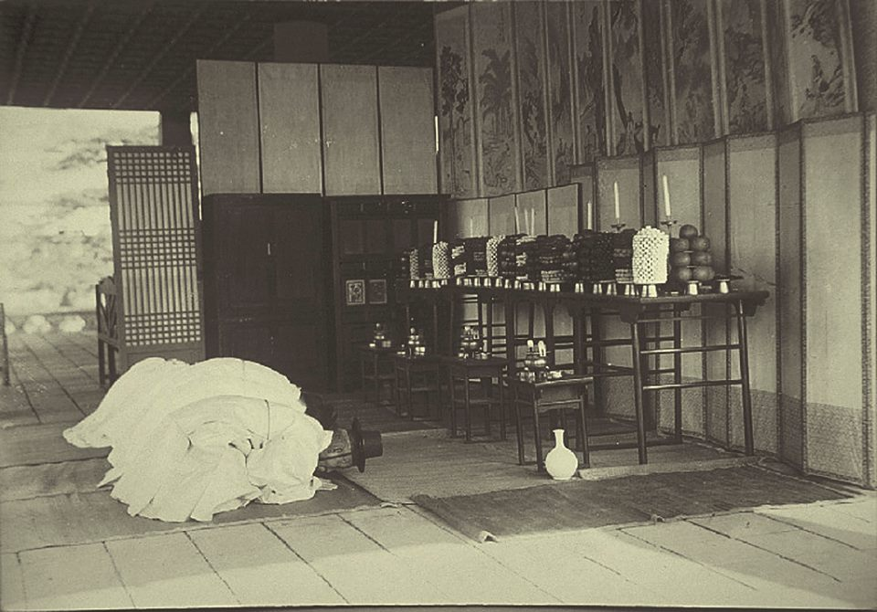 Death anniversary(Jesa, 제사) in Joseon during the Korea under Japanese rule, Photographed by Murayama Chijun(村山智順)